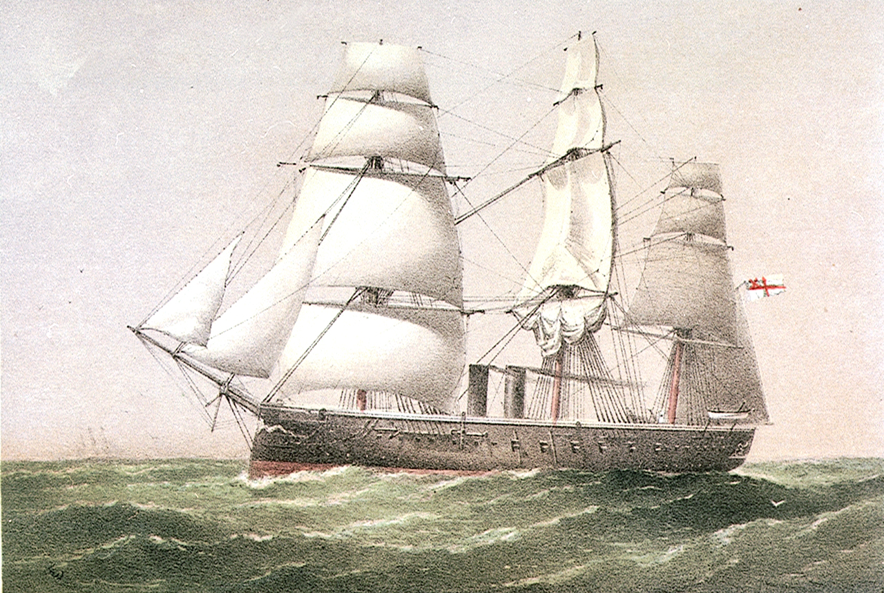 H.M.S. Inconstant Print